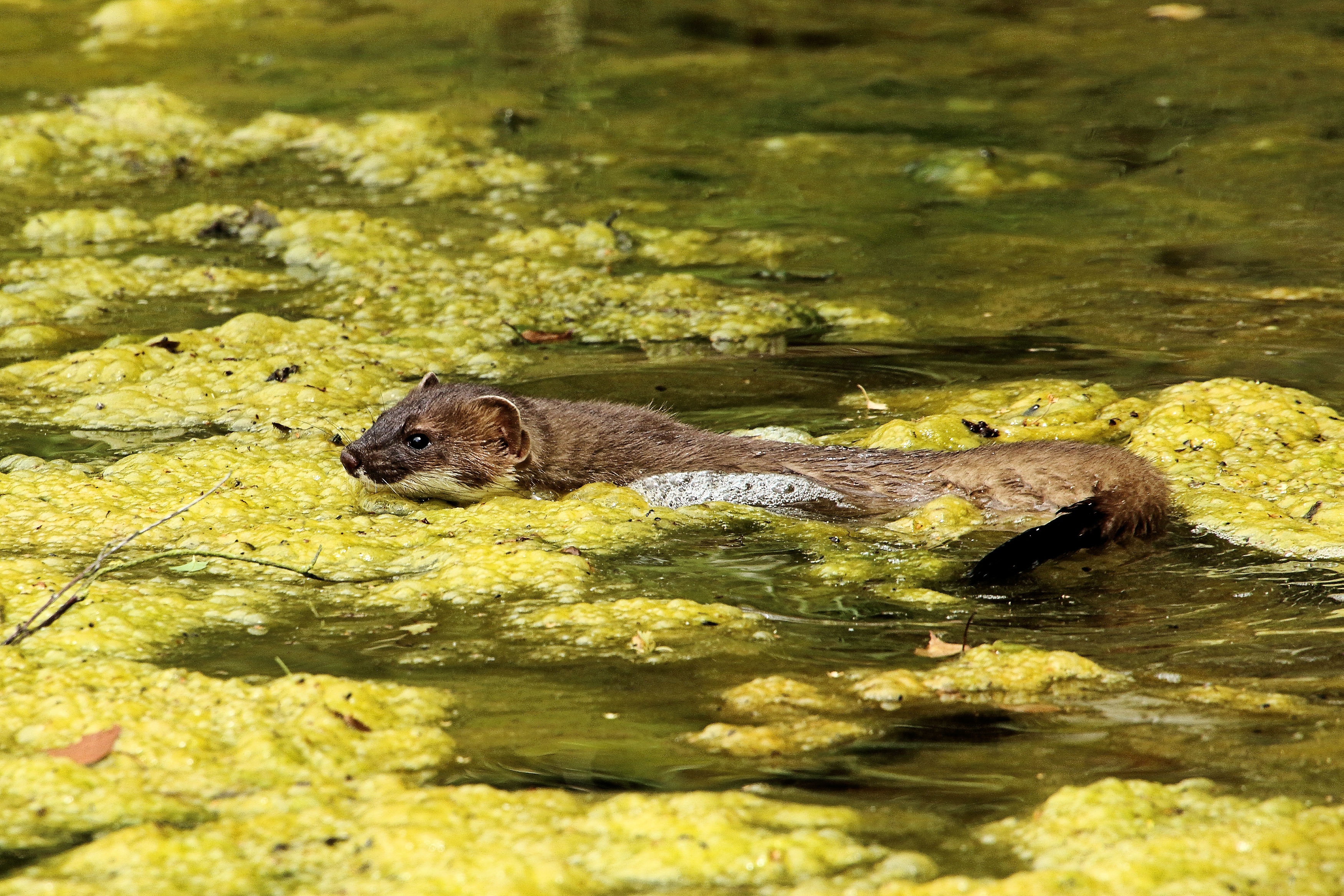 RSPB Sandy RSPB and Nature Reserves Wildlife